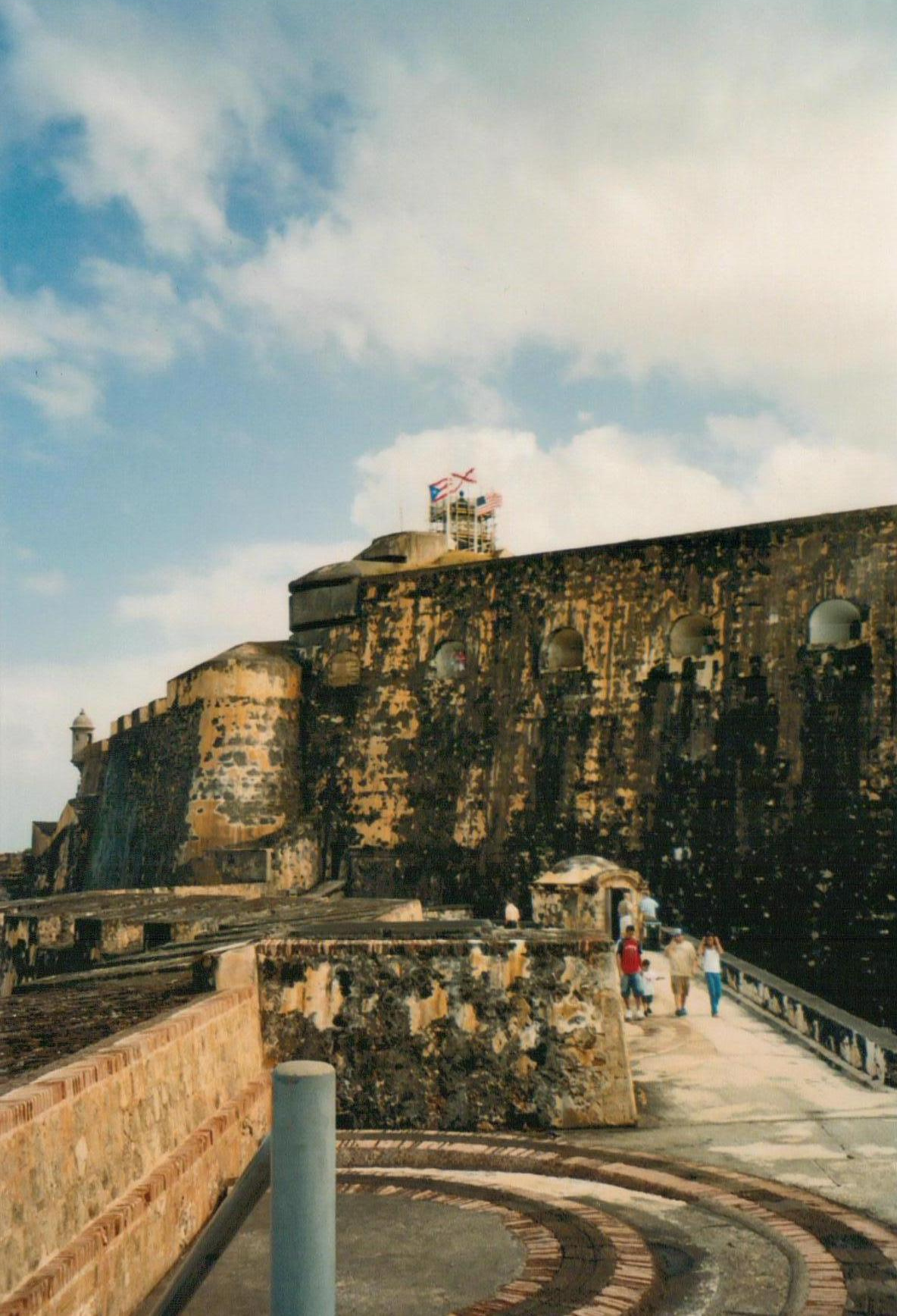 Fort San Felipe del Morro